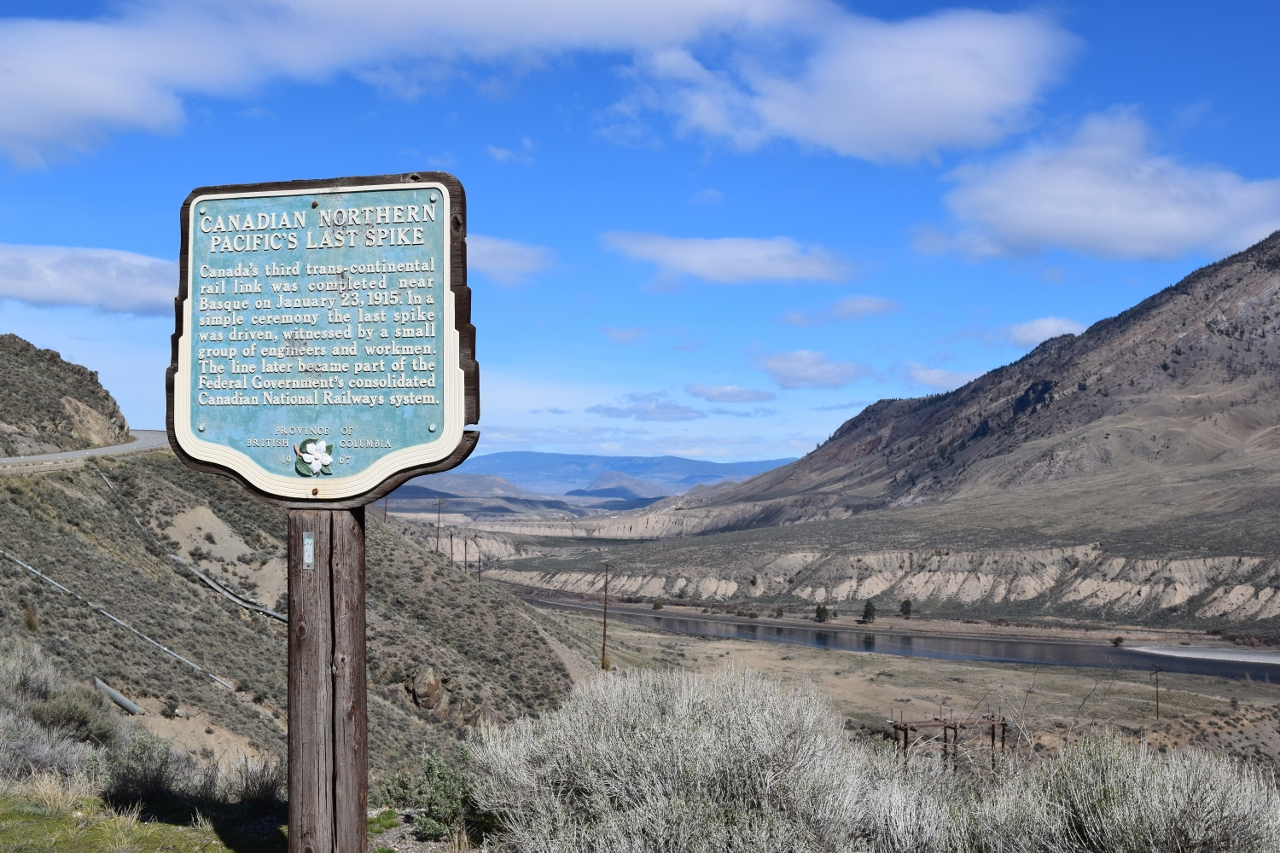 Canadian Northern Pacific (CN) Railroad Last Spike, near Spences Bridge and Ashcroft, BC, Canada